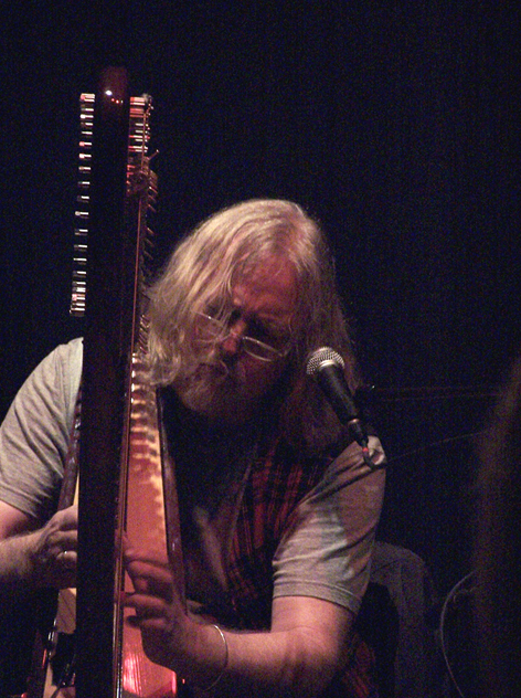 Korks in Bondgate is having some very interesting Monday music nights this Spring. Robin Williamson and John Renbourn are world class performers with over 40 years of work behind them. Tonight was a very cosy, friendly affair and the last thing I wanted to do was disrupt things by moving around taking photographs. So I just took a couple from where I was sitting with no flash and the ISO setting as high as it would go. Stories and music were both of the very best. For me, Robin Williamson singng Dylan's "Absolutely Sweet Marie" was a revelation.